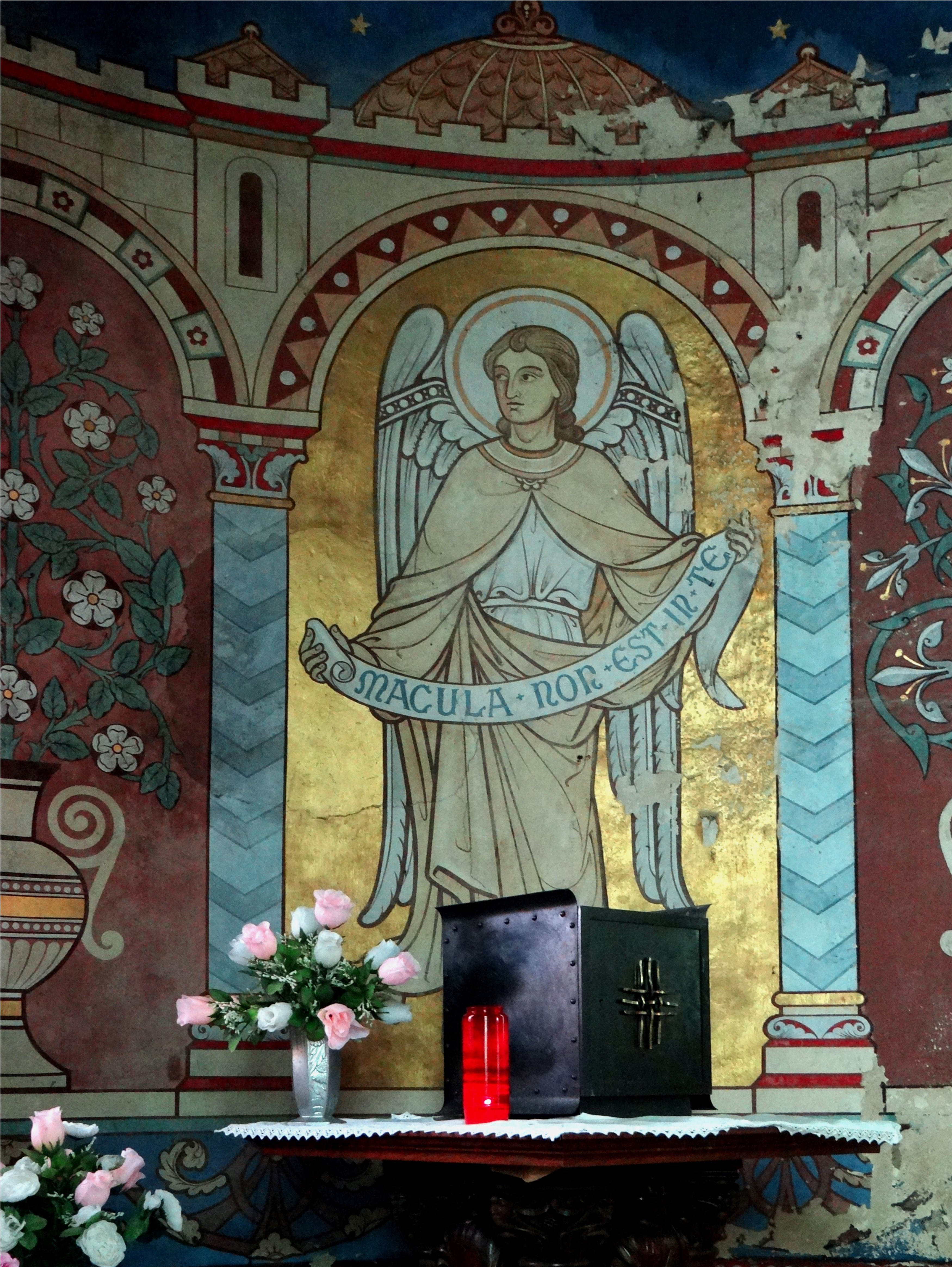 St. Alban Church, Lormes, Nièvre, France. Chapel of the Virgin. Mural invoking prayer "O Sanctissima" Macula non est in te (And original sin is not in you)